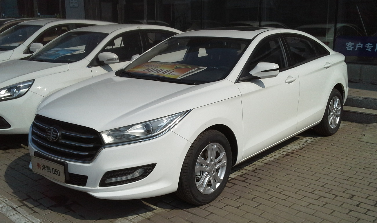 Besturn B50 II photographed in Harbin, Heilongjiang province, China.